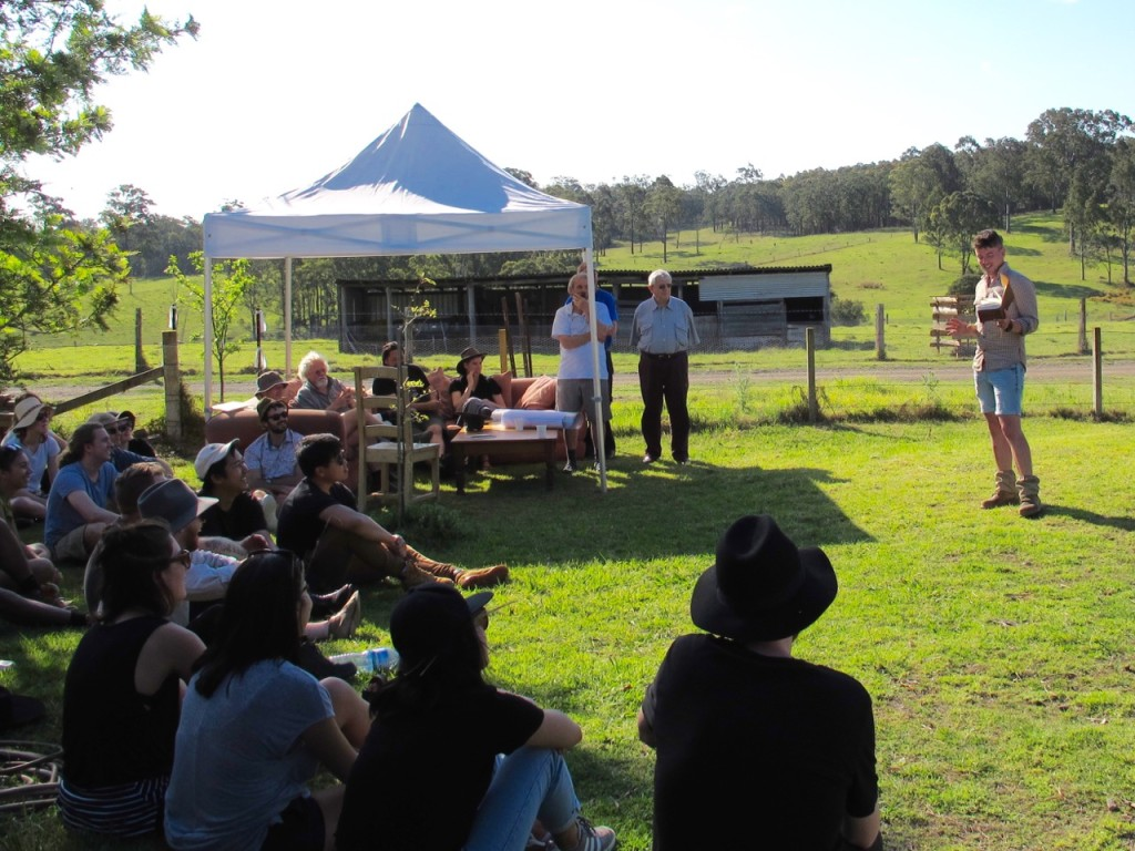 Jiri Lev opening ArchiCamp 2015